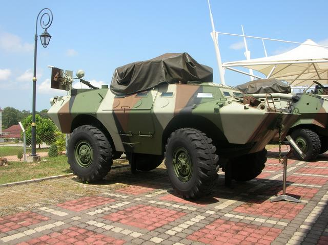 A retired Malaysian Army V-150 (in newer livery) in display at Malaysian Army Museum, Port Dickson.